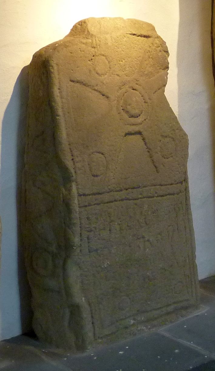 11th C so-called 'pannelled cart-wheel cross that stood at St Nyddid's Church (now ruined) between Margam and Kenfig. It is now in the Margam Stones Museum nr Port Talbot.